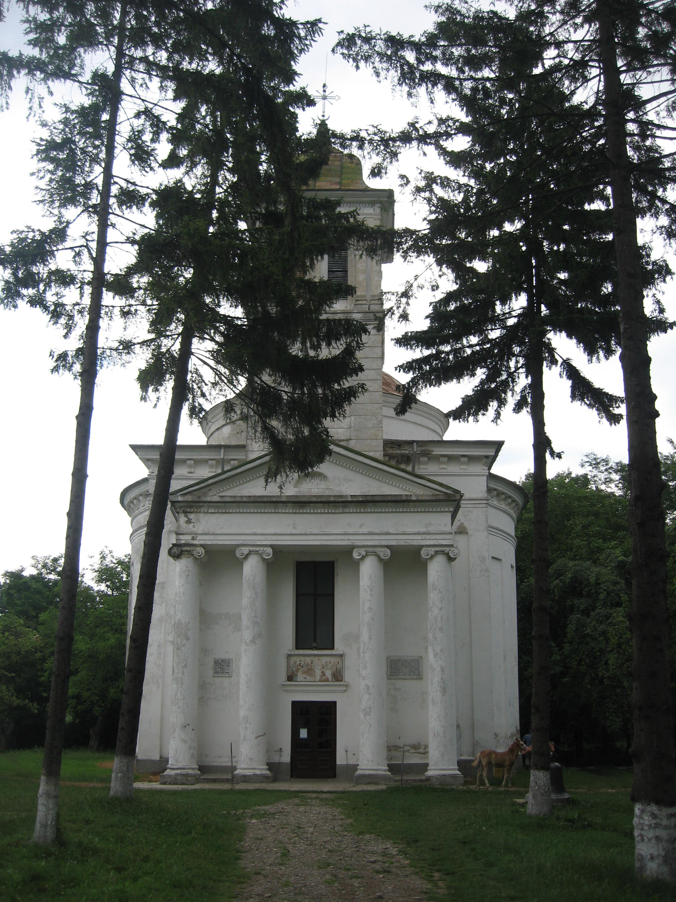 Church 02